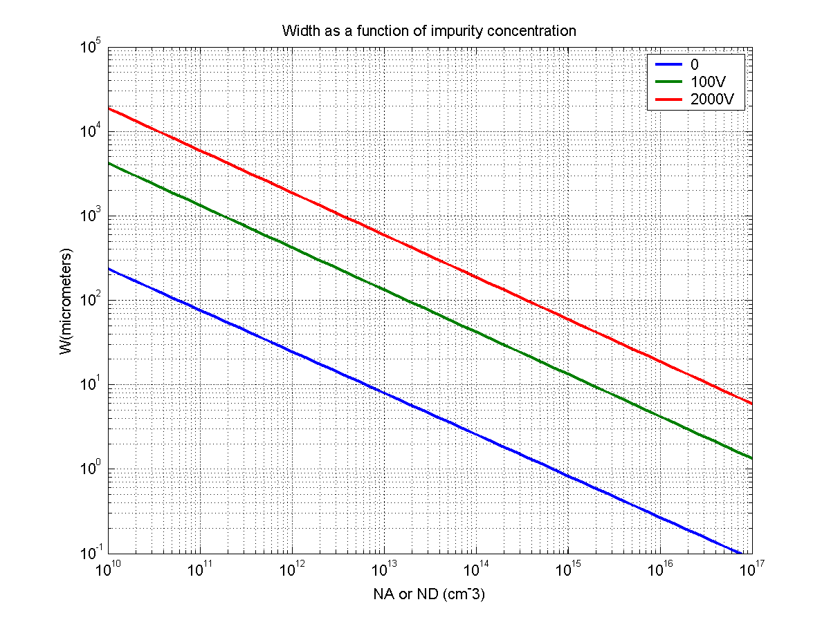 The depletion-region width of germanium as a function of impurity concentration (acceptors/donors) for a range of applied bias. Hyper-pure germanium under an applied bias of 2kV has a depletion region in the order of 2cm. This thickness is suitable for detecting gamma rays (200keV - 10MeV) in nuclear spectroscopy which are highly penetrating.